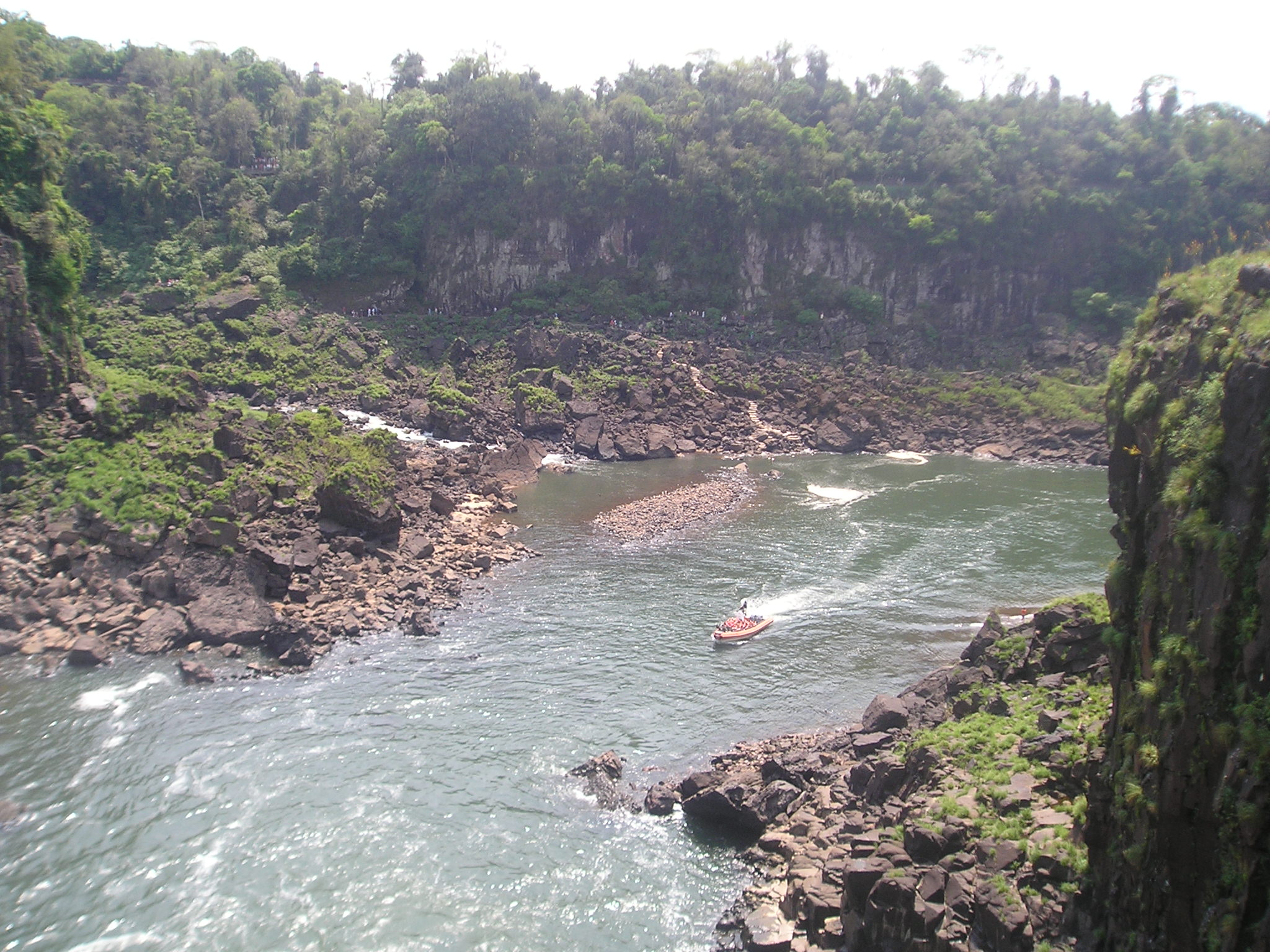 Iguassu river immediately after the Iguassu Falls. Iguazu Falls, in Misiones (Argentina).